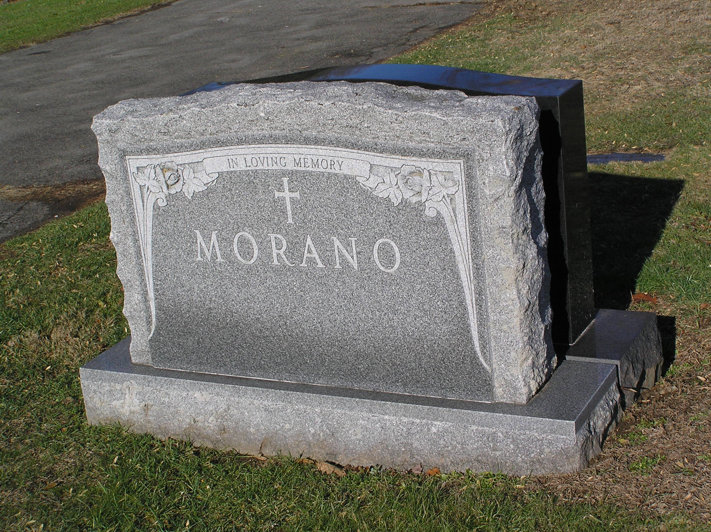 The gravesite of Albert P. Morano in Saint Mary's Cemetery